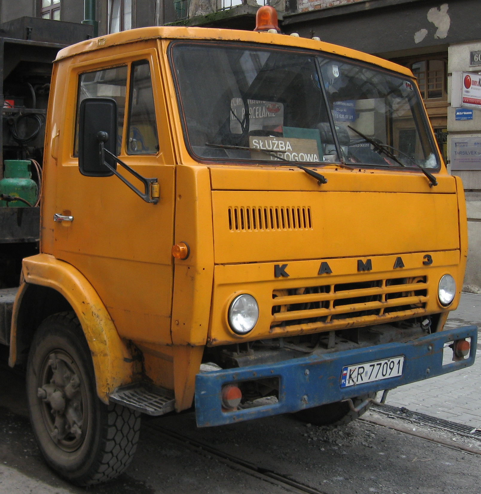 Kamaz 1-st generation